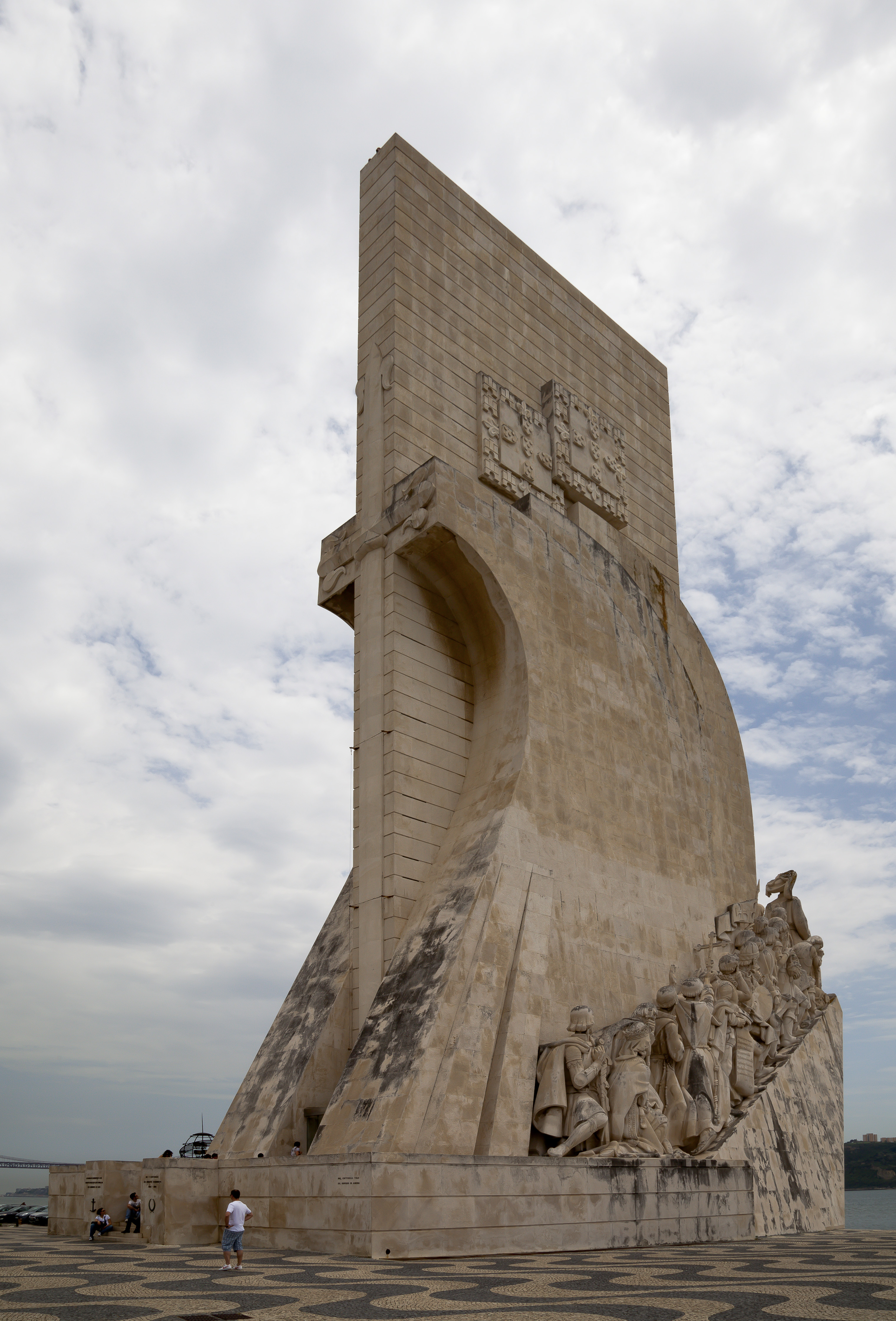 Monument to the Discoveries in Belém (Lisbon), Portugal